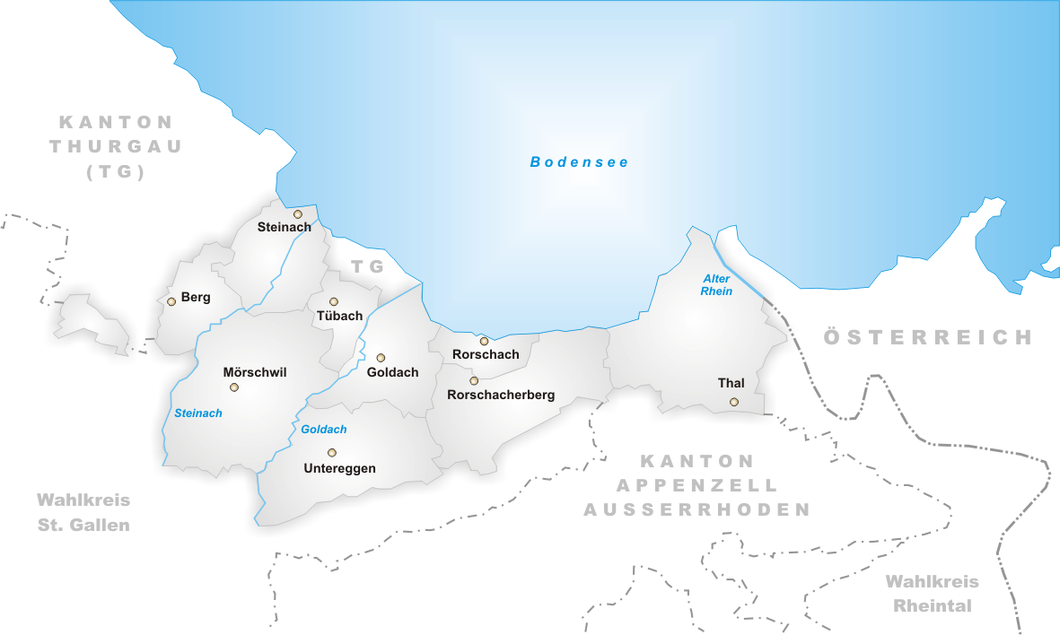 Municipalities of District Rorschach